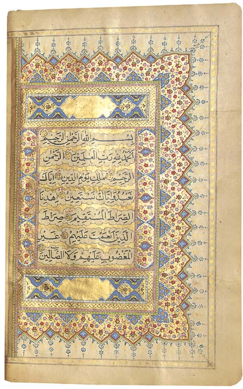 A late Mughal Qur'an leaf with full illumination QUR'AN, MUGHAL INDIA, 18TH CENTURY. Manuscript on paper, 558ff. with 11 ll. of clear black naskh with red notations over gold-speckled centre panel, within double gold margins within black lines, gold verse markers, sura headings in white thuluth over gold ground, juz' markers in with white naskh on eight-pointed gold star with blue and gold foliate projections, illuminated opening double-page with text in black naskh in clouds on gold ground enclosed by panels with polychrome floral decoration over gold, with cusped blue, gold and green frame, the closing double-page with similar decoration but for straight edges, in pasteboard binding with painted medallions in gold, red and black over brown ground, now loose from spine and chipped and worn, otherwise manuscript in very good condition. Folio 9 x 5 5/8in. (22.7 x 14.2cm.).